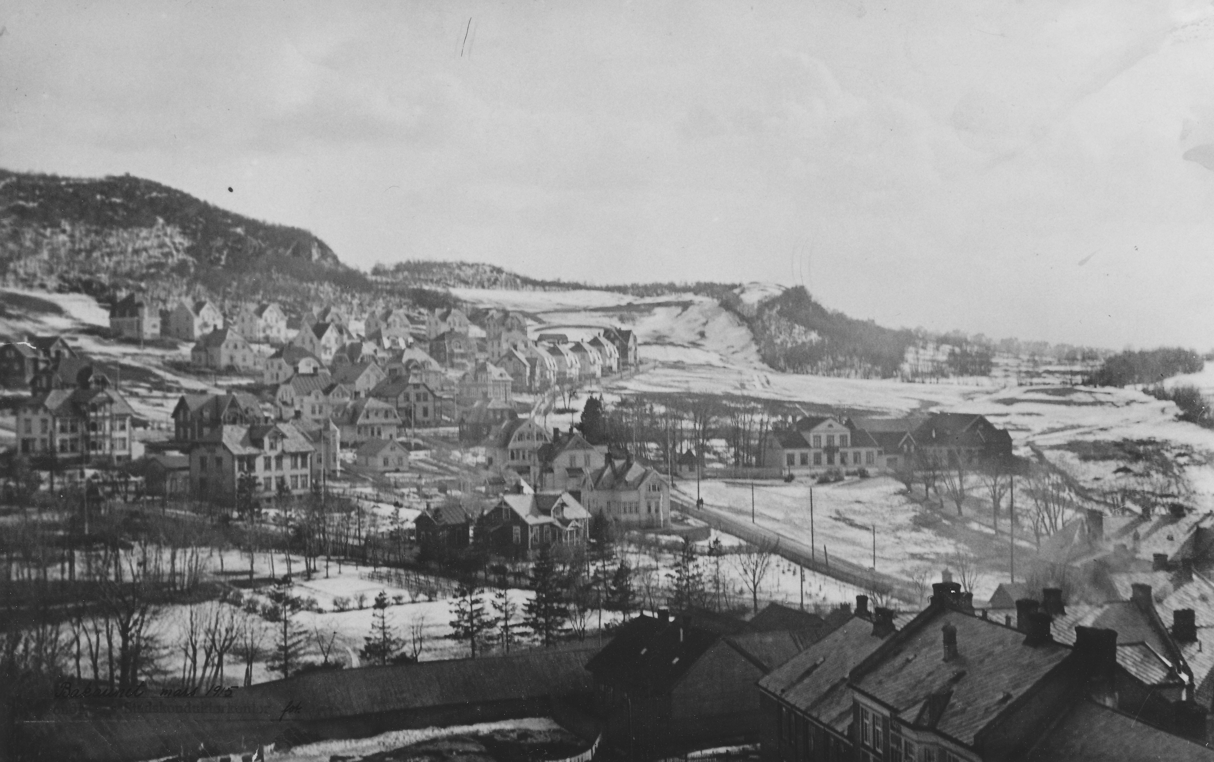 Format: Fotopositiv Dato / Date: Mars 1930 Fotograf / Photographer: Ukjent Sted / Place: Bakkaunet, Trondheim Eier / Owner Institution: Trondheim byarkiv, The Municipal Archives of Trondheim Arkivreferanse / Archive reference: Tor.H40.B02.F0078 [T0240] Merknad: Bakkaunet, mars 1930.